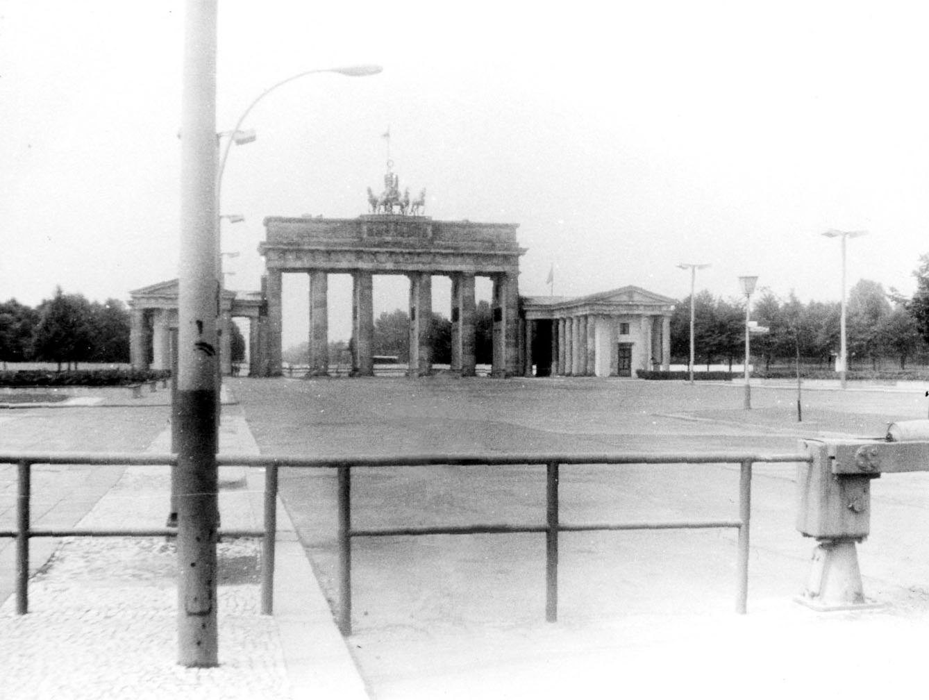 Brandenburg Gate, east side (GDR), in 1982; beyond barrier is prohibited area